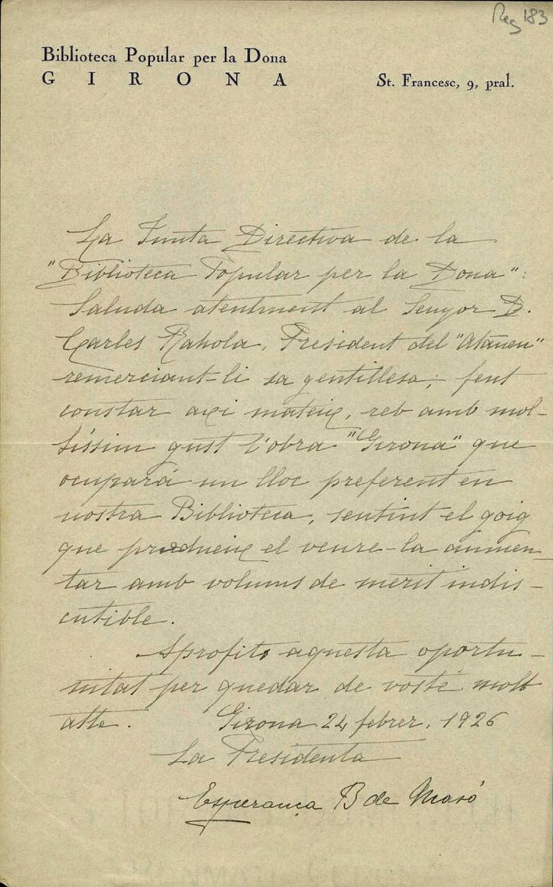 Carta de Esperança Bru, directora de la Biblioteca Popular de la Dona, a Carles Rahola. 1926